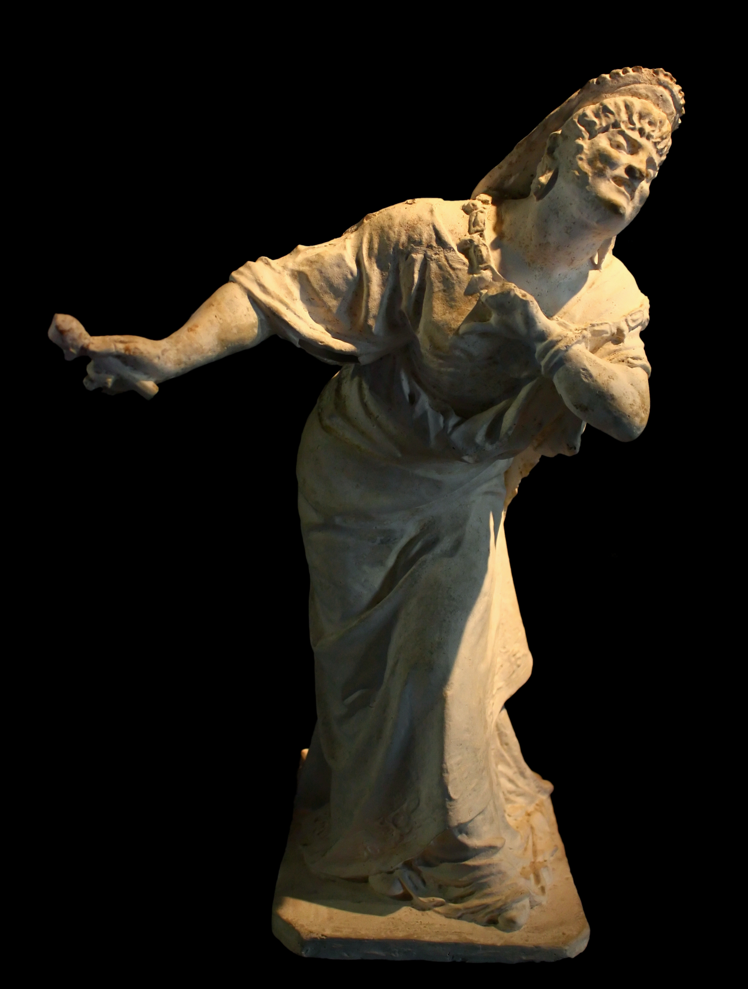 Emilio Gallori Nero dressed as a woman Gesso 1873 Florence, Galleria Nazionale d'Arte Moderna.